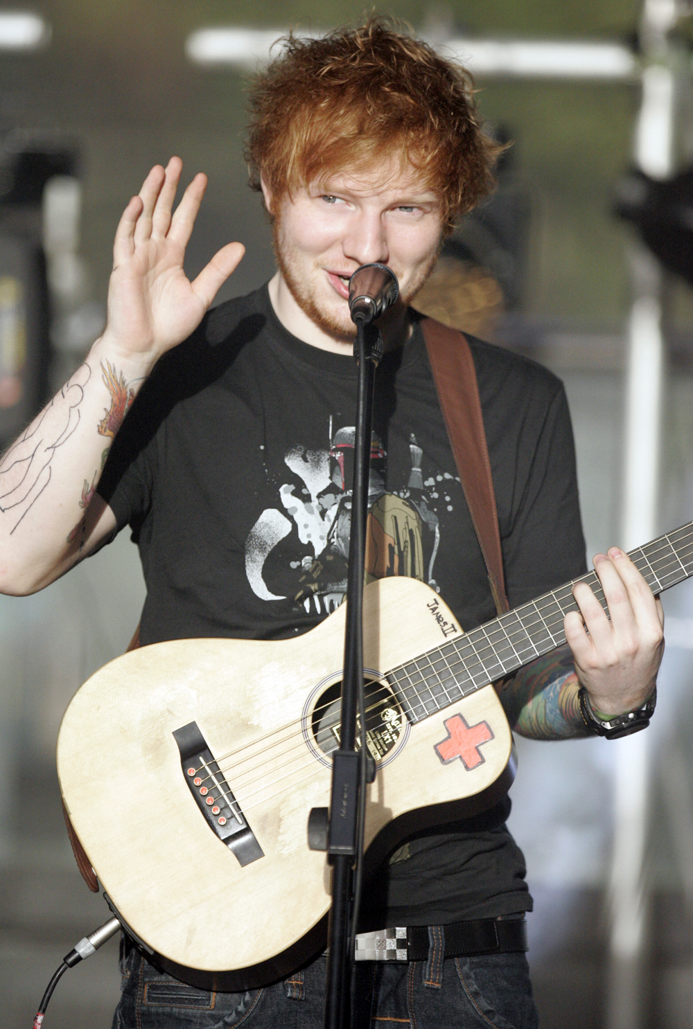 Ed Sheeran